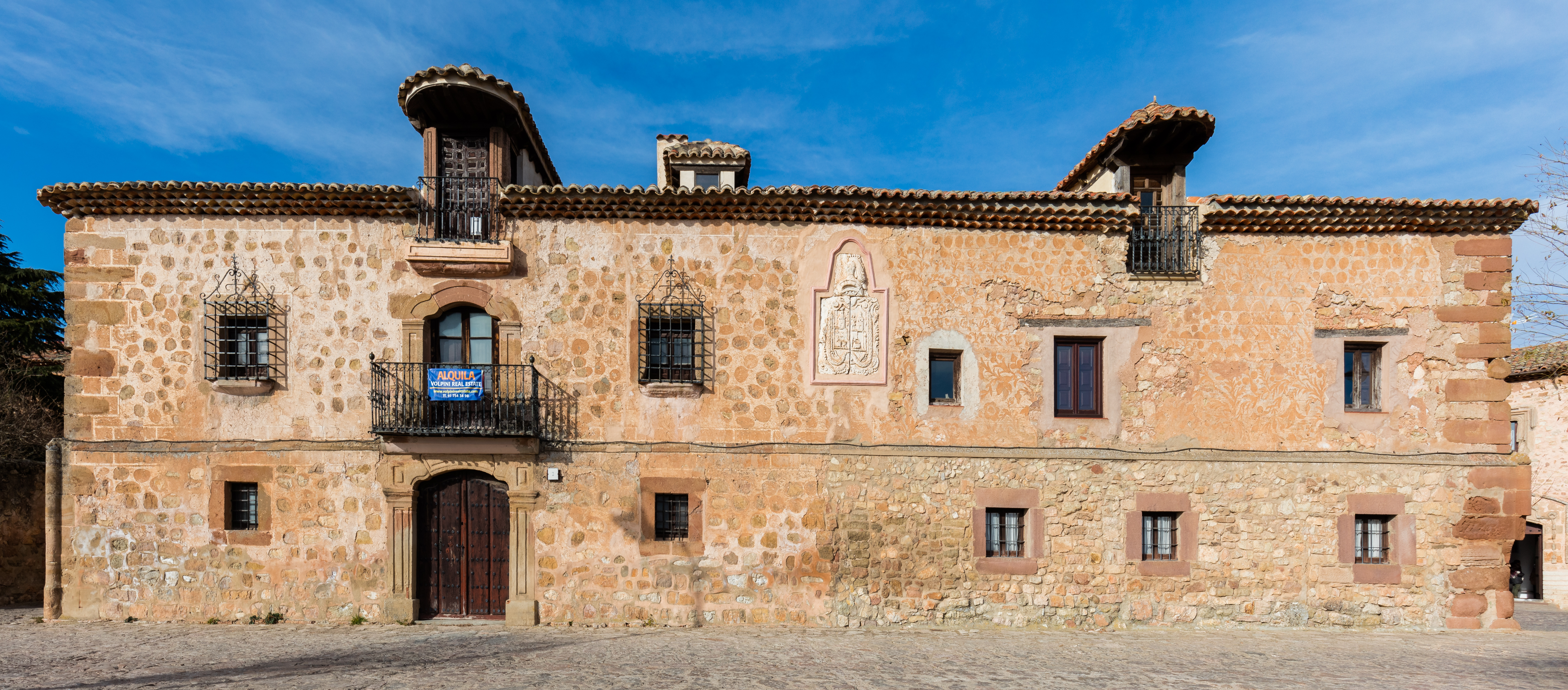 Palace of the Marquesses of Casablanca, Medinaceli, Soria, Spain